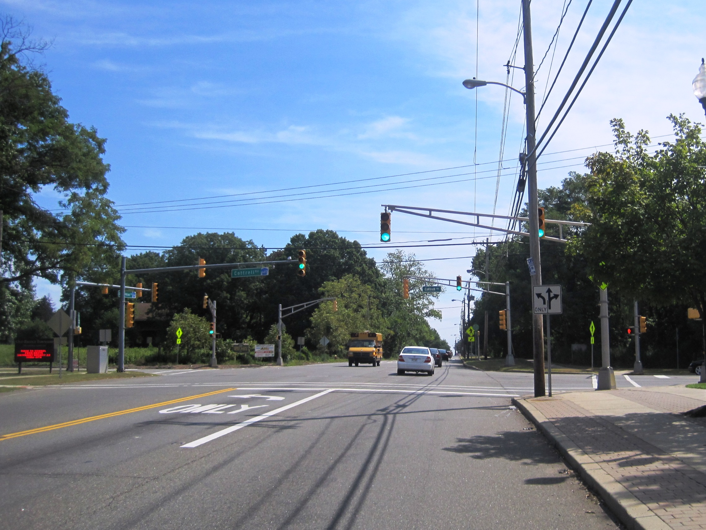 Photo of Cottrell Corners, New Jersey, an unincorporated community within Old Bridge Township. Photo taken on eastbound Old Bridge-Matawan Road (County Route 516) approaching Cottrell Road.